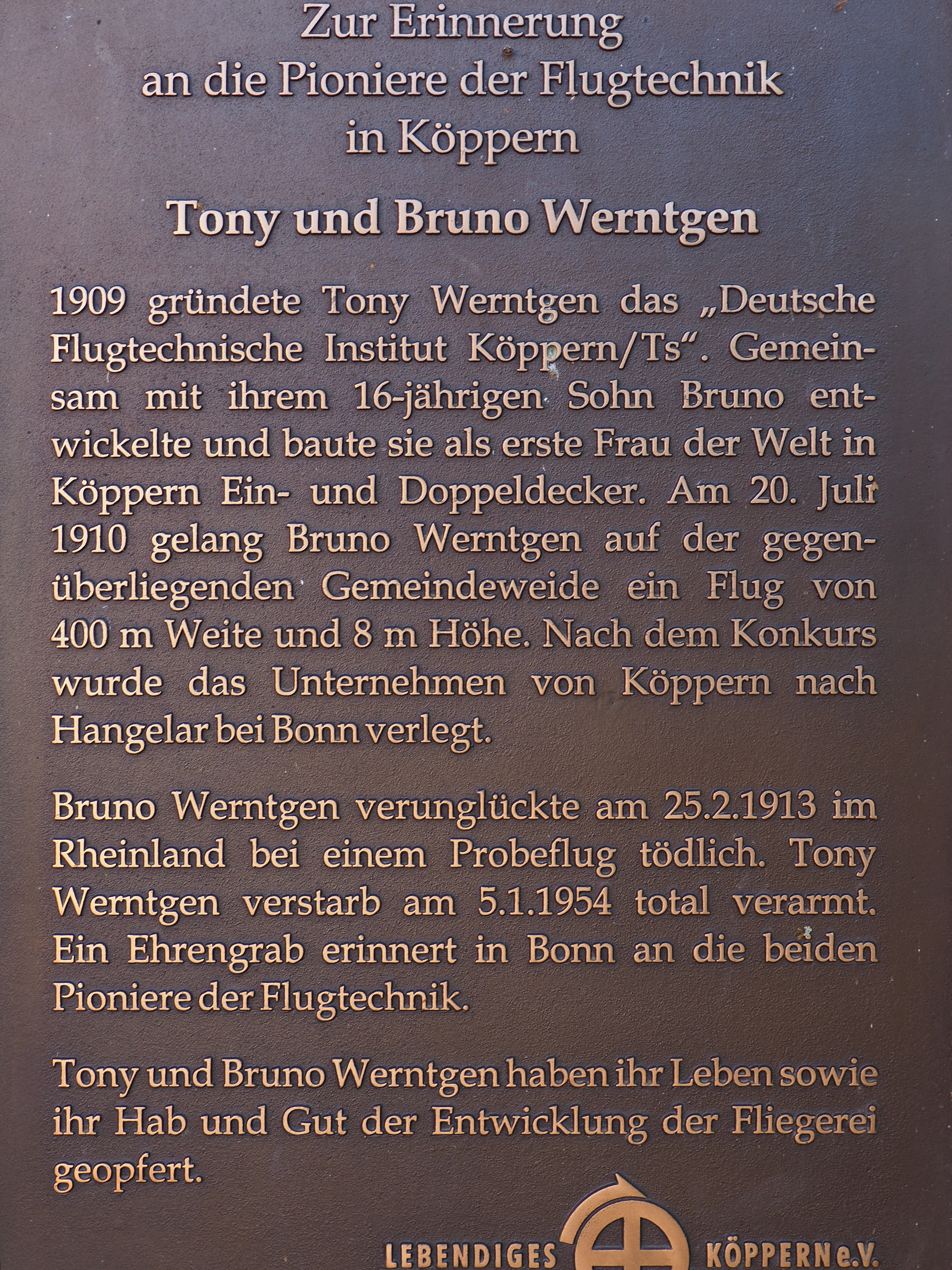 Memorial for flight pioneers Tony and Bruno Werntgen who had their German flight-technical institute in Friedrichsdorf-Köppern